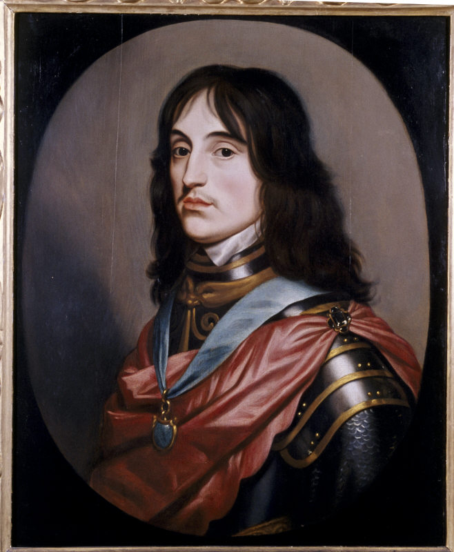 Oil painting on panel, Prince Rupert of the Rhine, Count Palatine, Duke of Cumberland (1619-1682) by Gerrit van Honthorst (Utrecht 1590 ¿ Utrecht 1656). A painted oval, head-and-shoulders portrait, turnedto left, long black hair, wearing armour with carmine cloak clasped at his left shoulder and blue ribbon and Order of ?St Esprit. Prince Rupert was the third, but second surviving son of Frederick V and was brought up in exile in Holland.He first followed his elder brother, Charles Louis, to England in 1636, staying for about a year, earning golden opinions from Charles I, and returning to the Netherlands in July 1837.A year later, he took part with his brother in an invasion of Westphalia, only to be captured by the Imperial forces on 17th October 1638.For the next three years he was held captive at Linz.After his release had been negotiated by Sir Thomas Roe, he rejoined his mother at The Hague on 10th December 1641.In February 1642 he went to England again, to thank Charles I for obtaining his release, and escorted Henrietta Maria to Holland on his return.In April, he was made a Knight of the Garter, along with James, Duke of York.In July 1642 he landed at Tynemouth, to join Charles I at Nottingham, where the latter raised his standard and began the Civl War on 22 August. The greater detail of this preamble is designed to indicate when and how Rupert might have been painted by Honthorst.He inspired the Royalist forces with new vigour, and improved the tactics of their cavalry, but his strategic advice and decisions were less sound, and sometimes threw away the results of localised victories, as at the Battle of Edgehill (23rd October 1642. In 1644 he was created Duke of Cumberland and Earl of Holderness.Promoted General of the Horse to Charles I, and after a series of victories exiled, following defeat by the Parliamentary army at Oxford.Returned to England at the Restoration to receive high naval and military honours.Co-founder of the Hud|National Trust